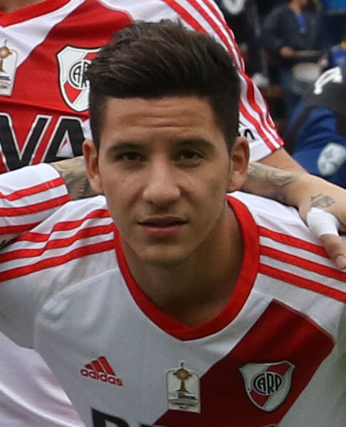 INDEPENDIENTE 5 MAV